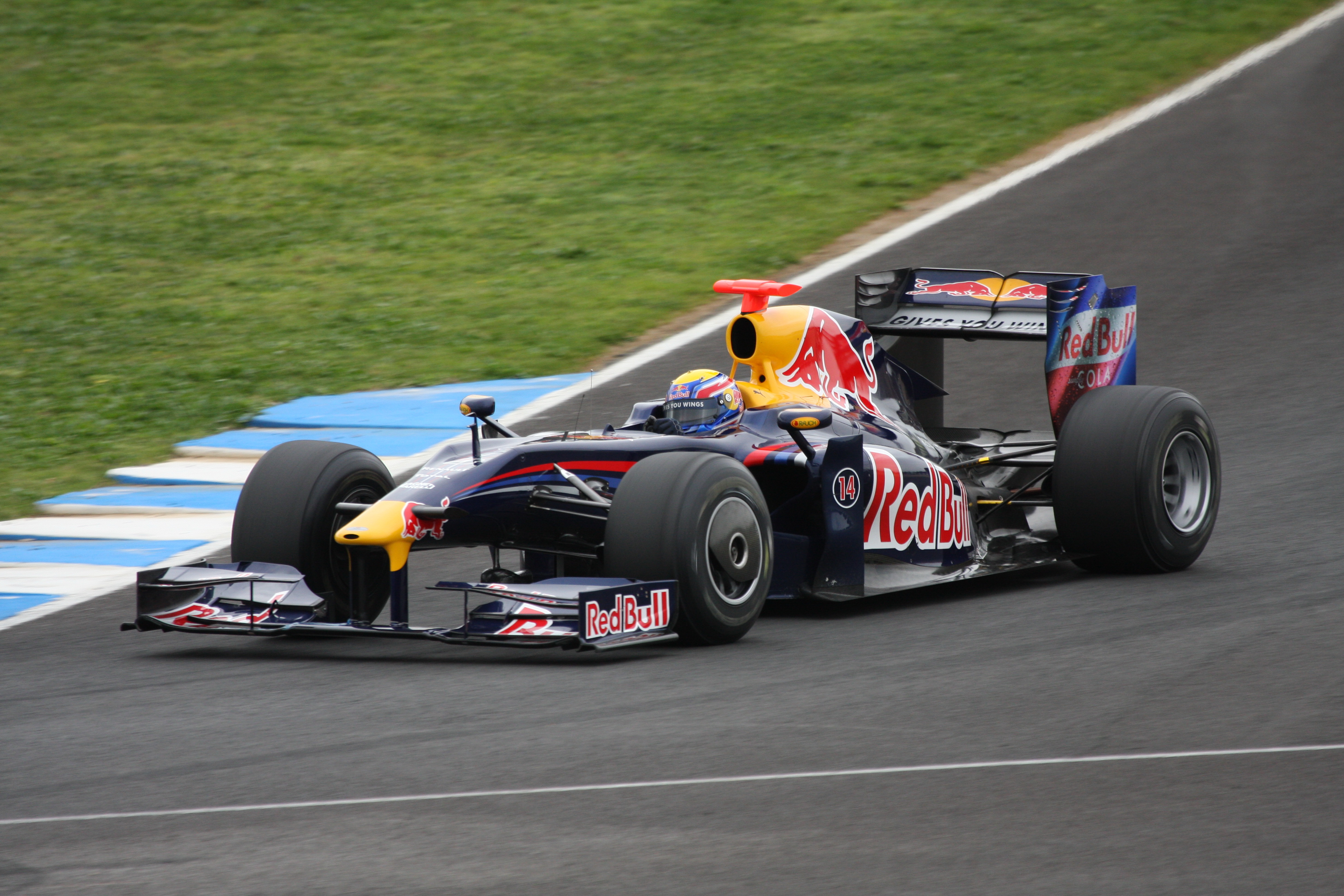 Mark Webber in the Red Bull RB5, F1 testing session, Jerez 4-March-2009